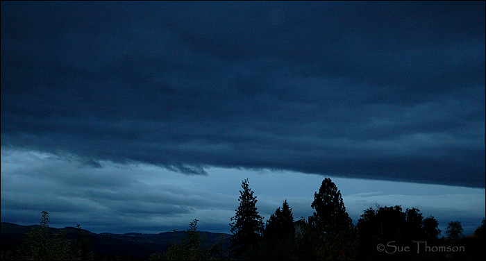 Okanagan Arch - a Chinook arch over Kelowna, BC Canada 2007-10-02 at 7:30 a.m.